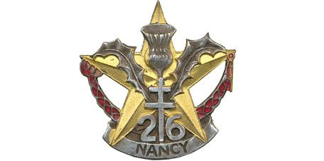 Regimental badge of the 26th Infantry Regiment (France) type 2.